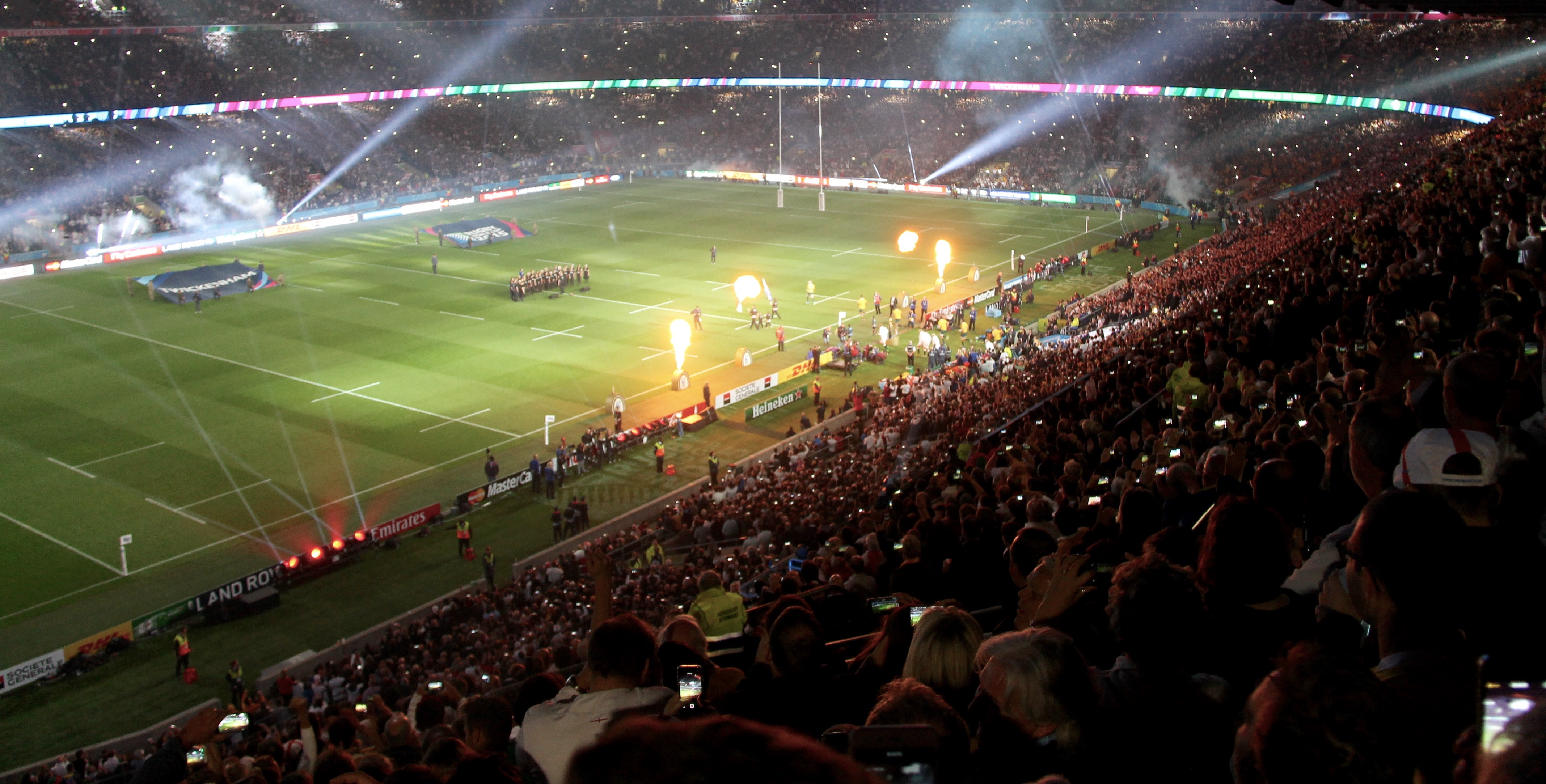 2015 Rugby World Cup match between England and Australia at Twickenham Stadium, London.